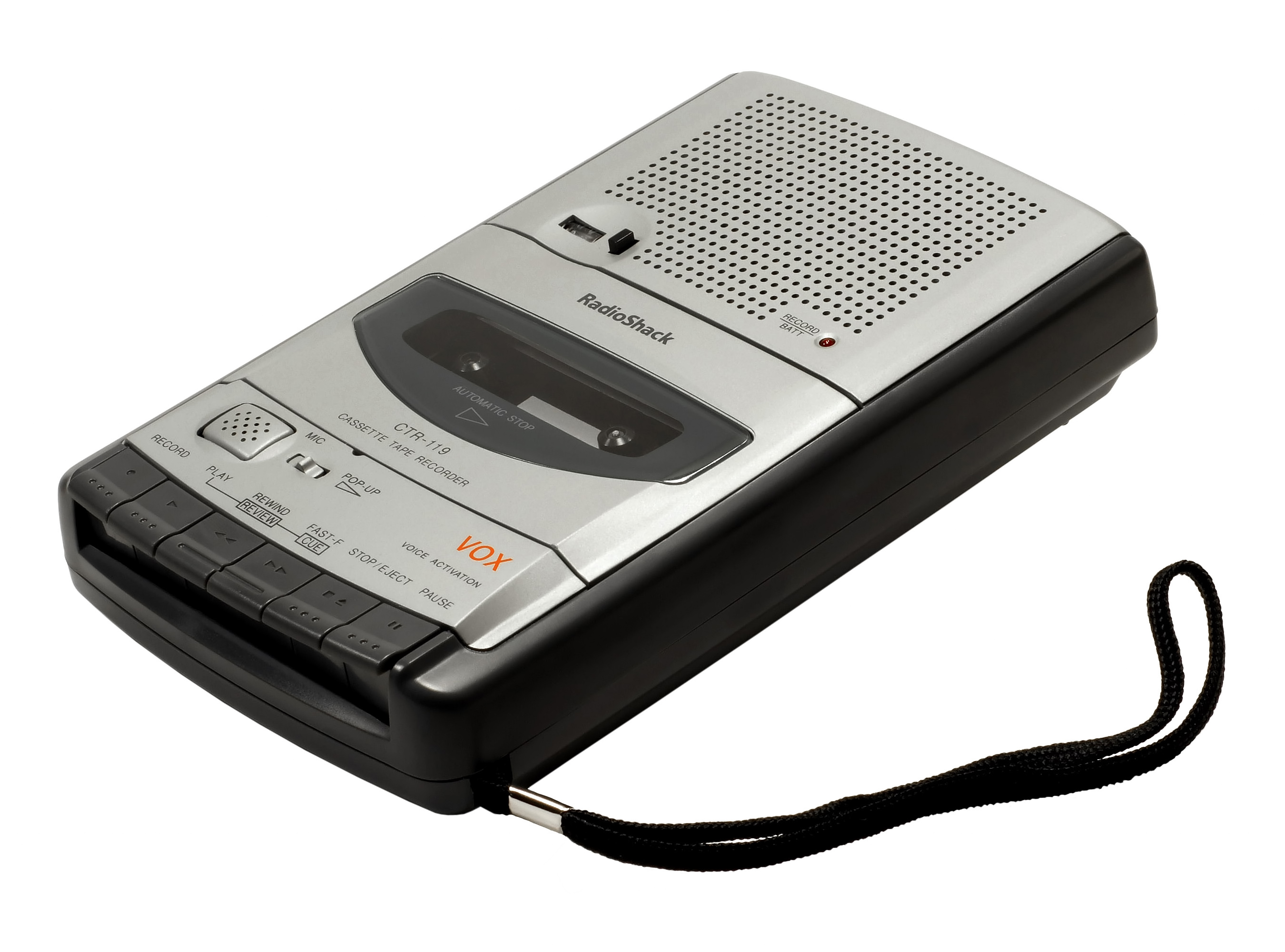 A RadioShack brand cassette recorder, with built-in microphone.